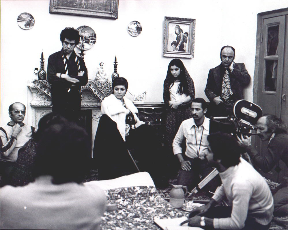 Scene from the Making of the film Mamal Amrikaei, directed by Shapur Gharib, with Behrouz Vossoughi and Googoosh